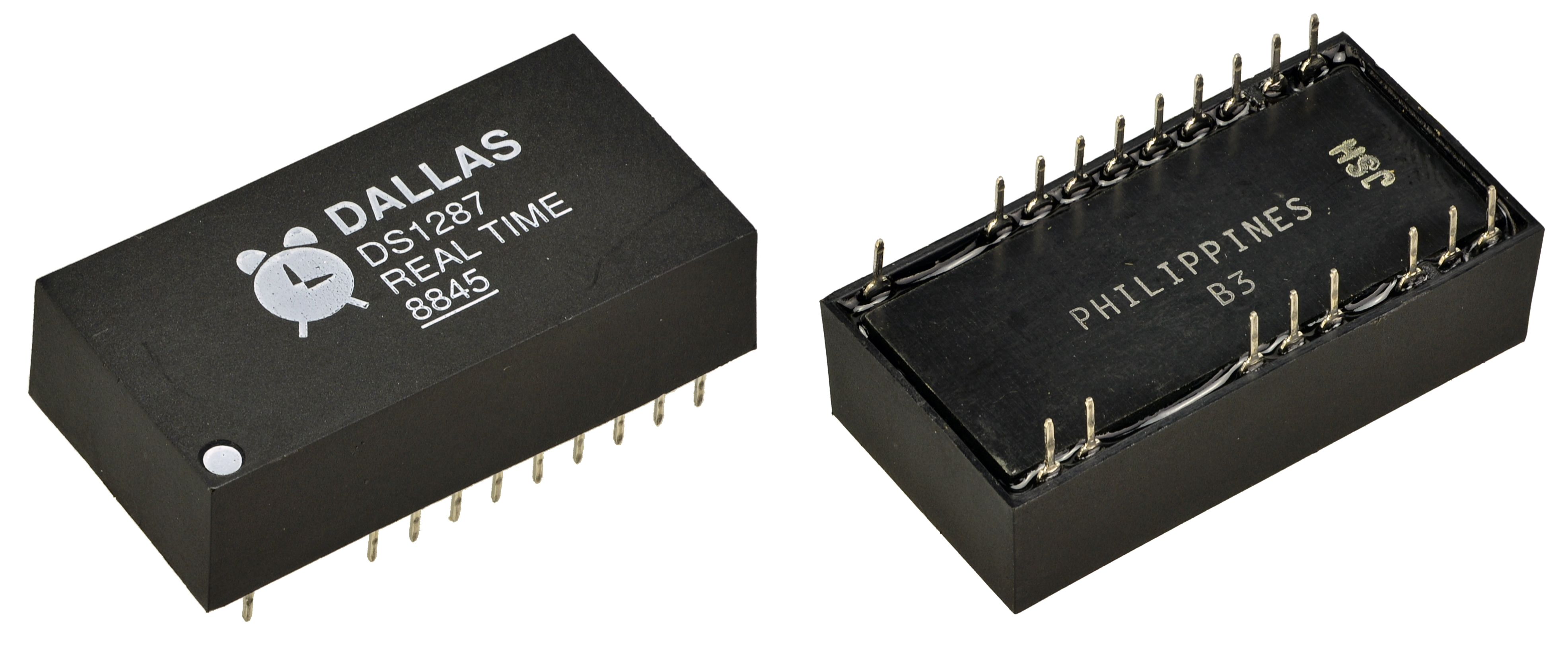 The Dallas Semiconductor DS1287 Real-time clock (RTC) integrated circuit (IC), which houses a non-replaceable lithium battery requiring careful destruction of the housing to replace. This particular chip wasn't soldered to the board, but socketed on the CPU board of the Schneider Tower AT System 220 from 1988.